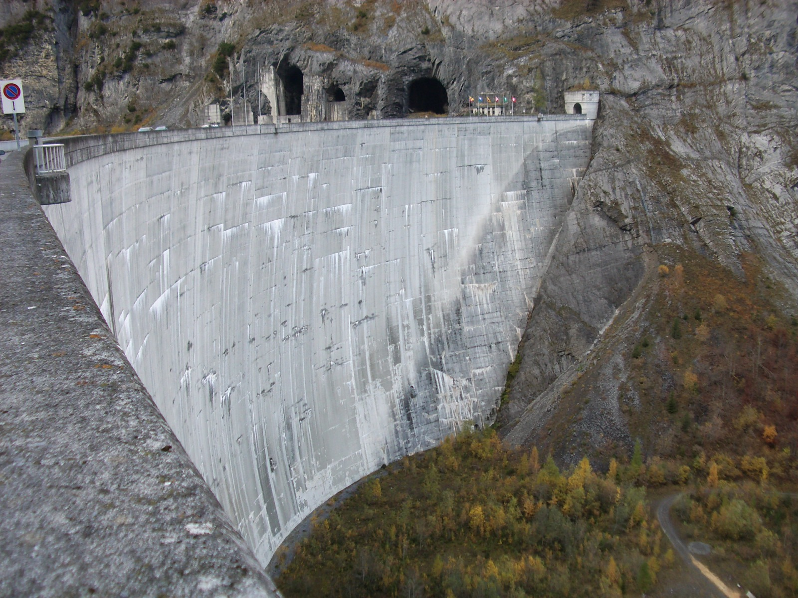 Gigerwald lake, Vättis SG, Switzerland